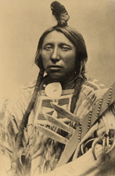 Lakota Chief Spotted Eagle